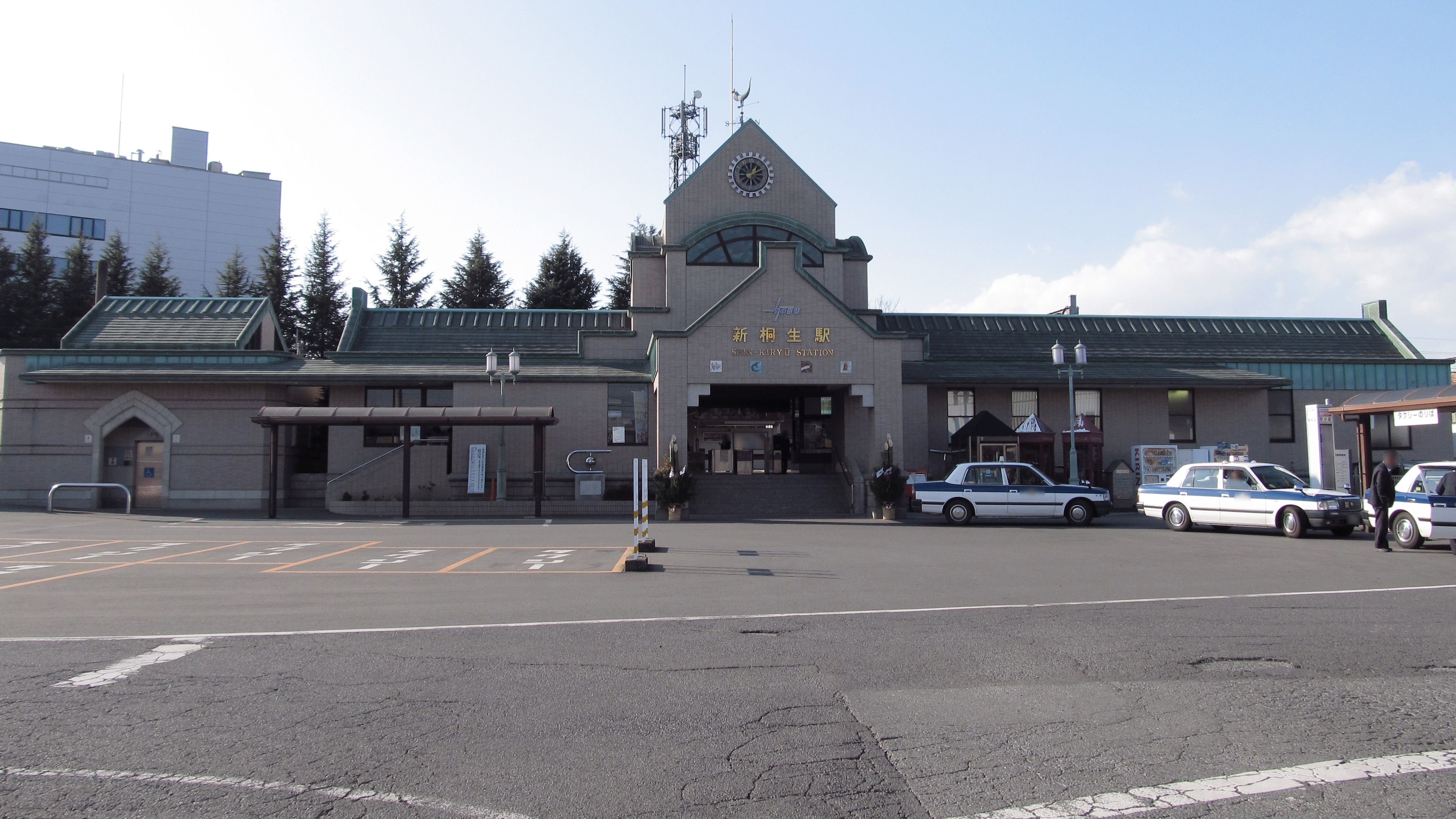 The building of Shin-Kiryū Station on the Tobu Railway Kiryū Line in Kiryū city, Gumma prefecture, Japan